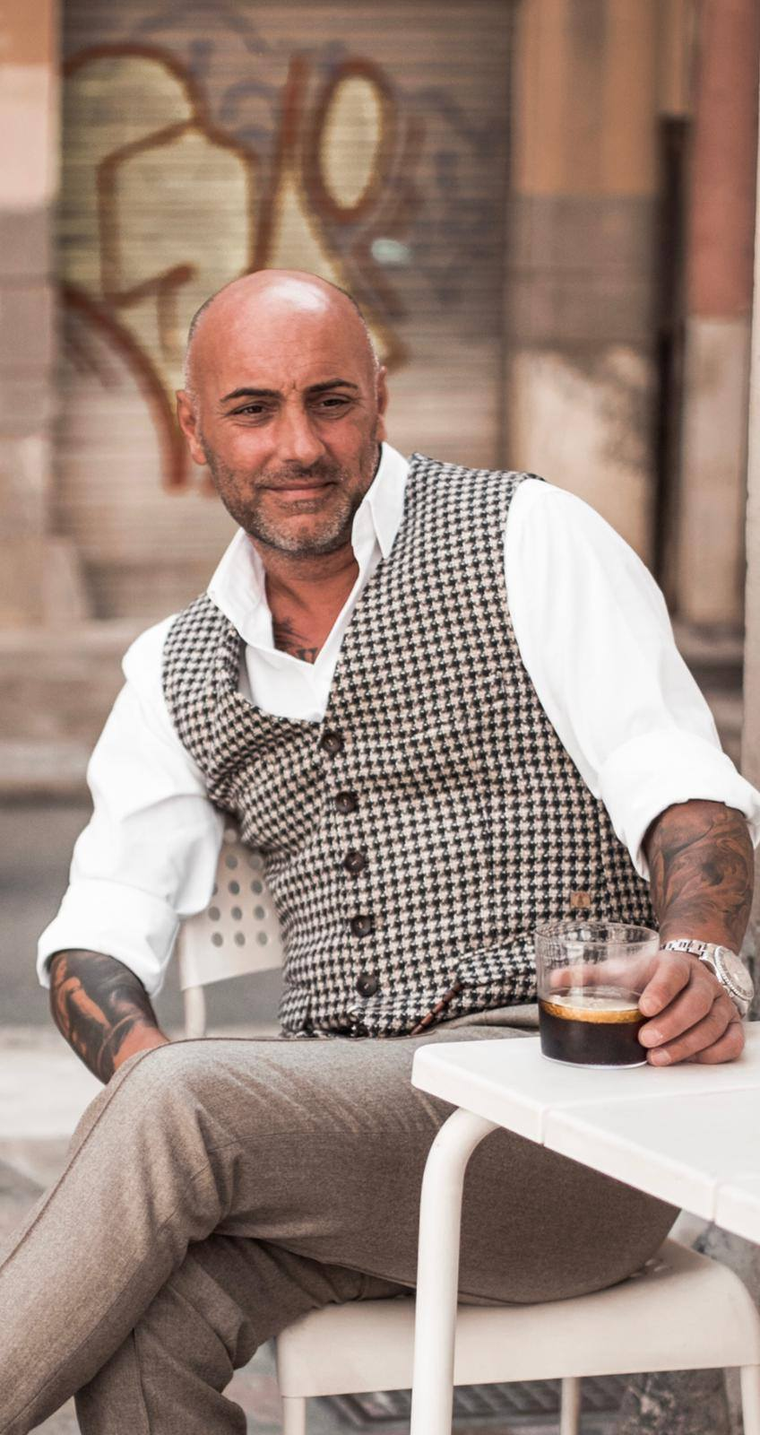 Paco Steinbeck Portrait. International art and antiquities dealer